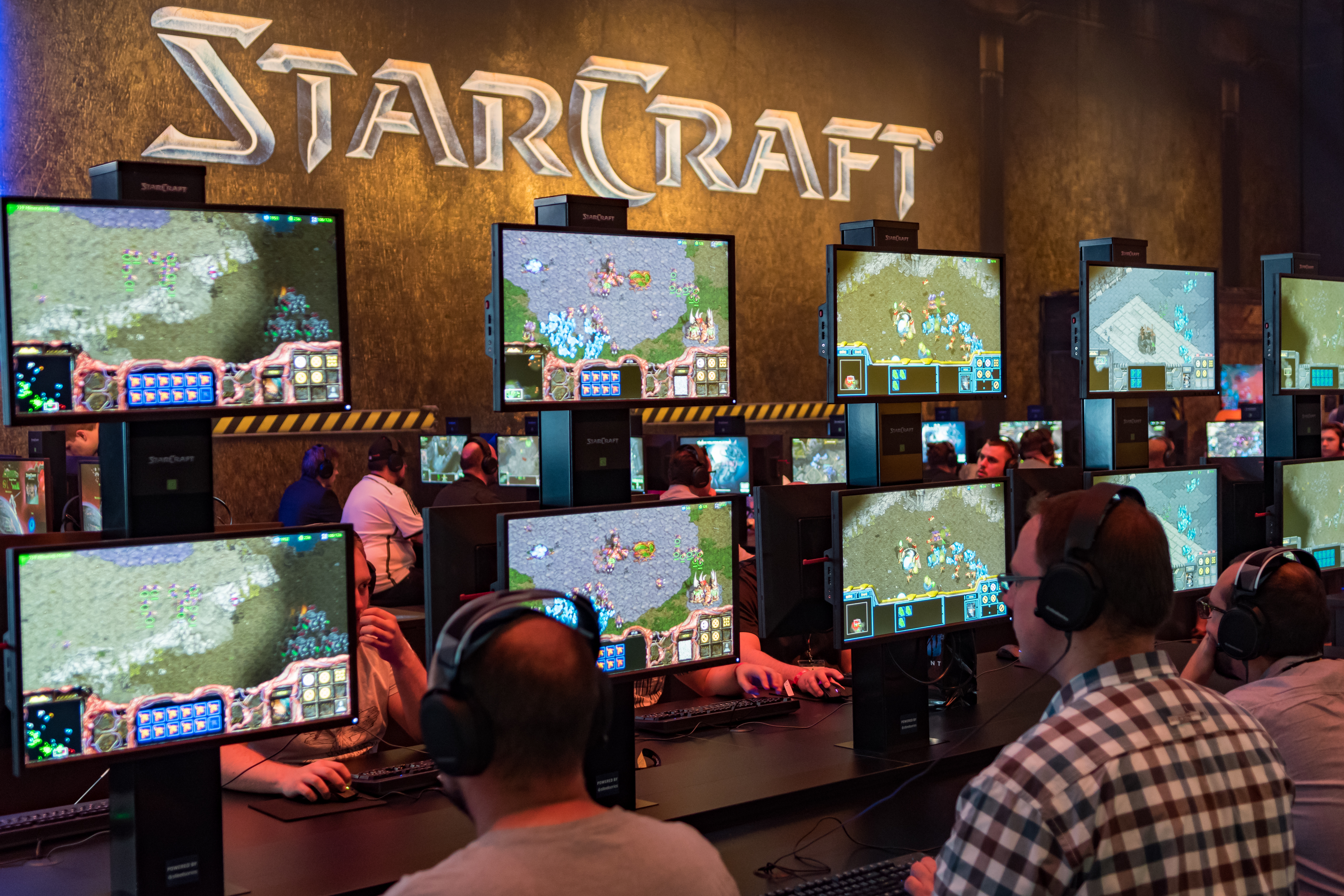 Starcraft Gamescom 2017